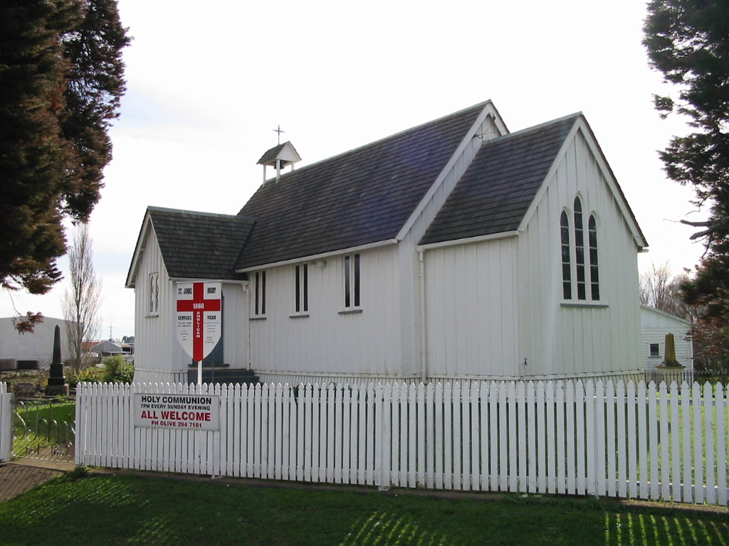 St. John's Church, Drury. New Zealand Historic Places Trust Register number 2596.